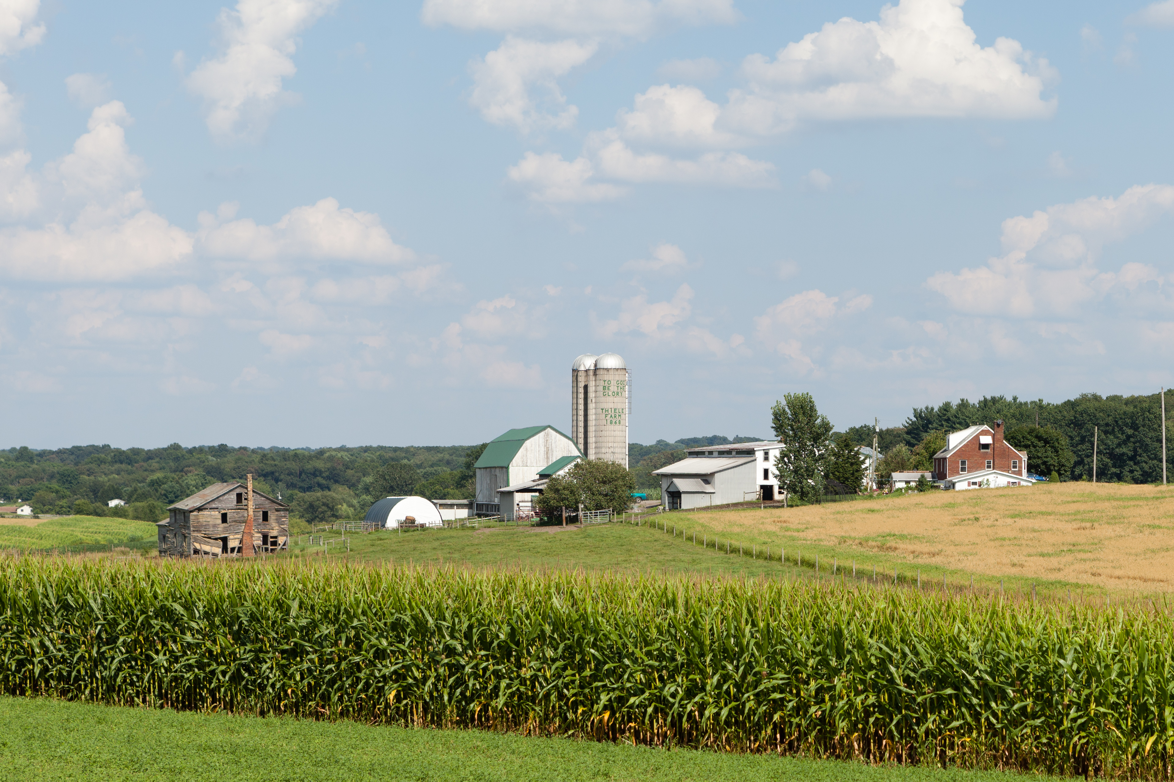 Thiele Farm, a diary farm in Jefferson Township, Butler County, Pennsylvania